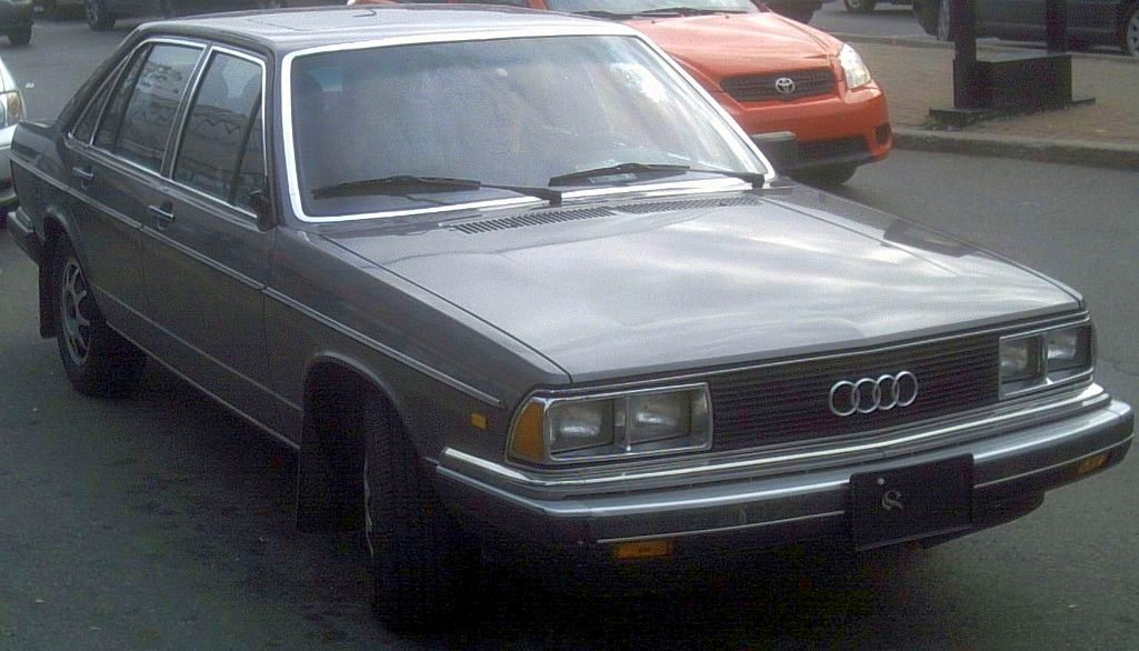 Audi 5000 photographed in Montreal, Quebec, Canada.